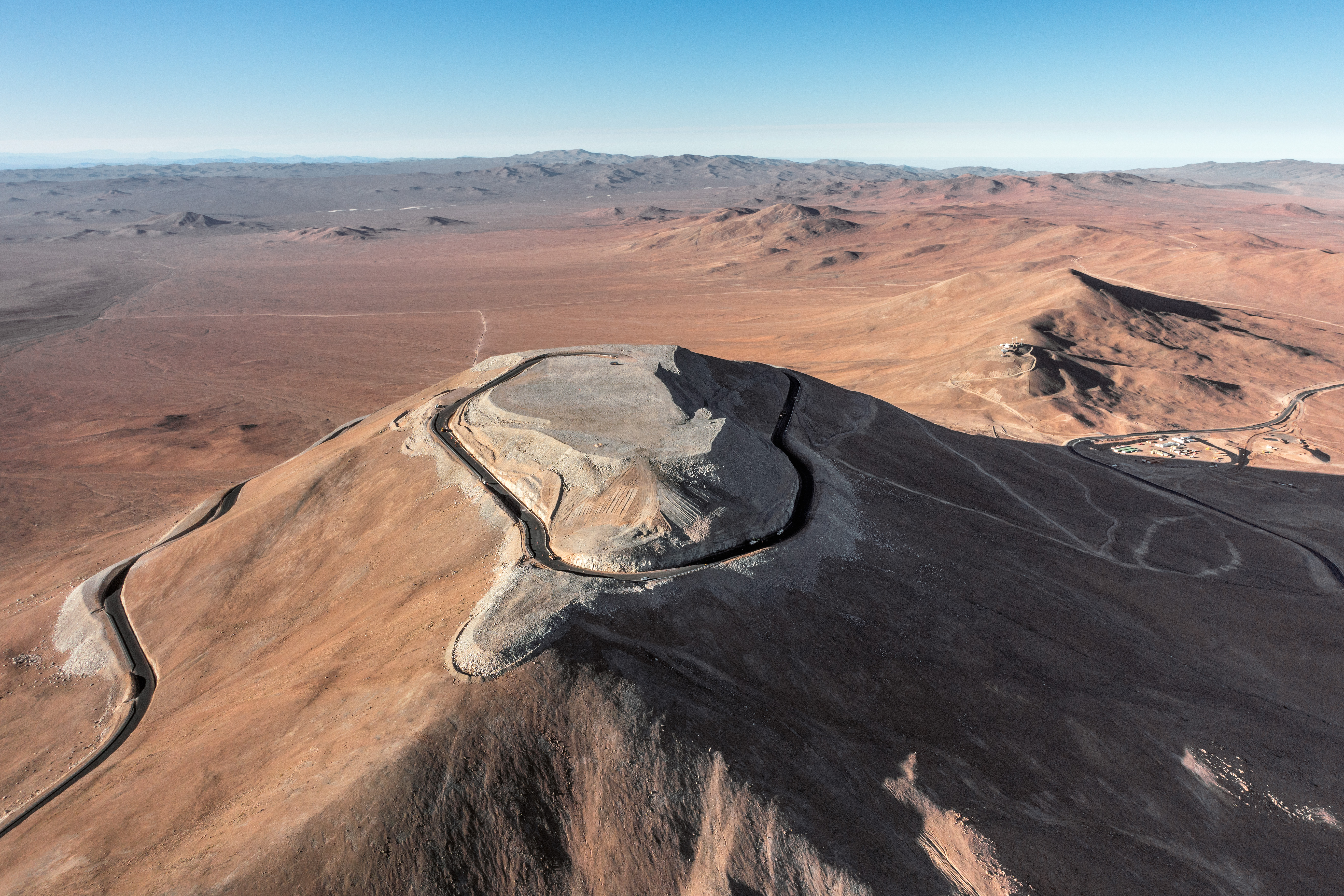 The flattened mountaintop of Cerro Armazones (Chile) is seen from the air. The peak will host ESO's 39-metre European Extremely Large Telescope (E-ELT), the world's biggest eye on the sky.